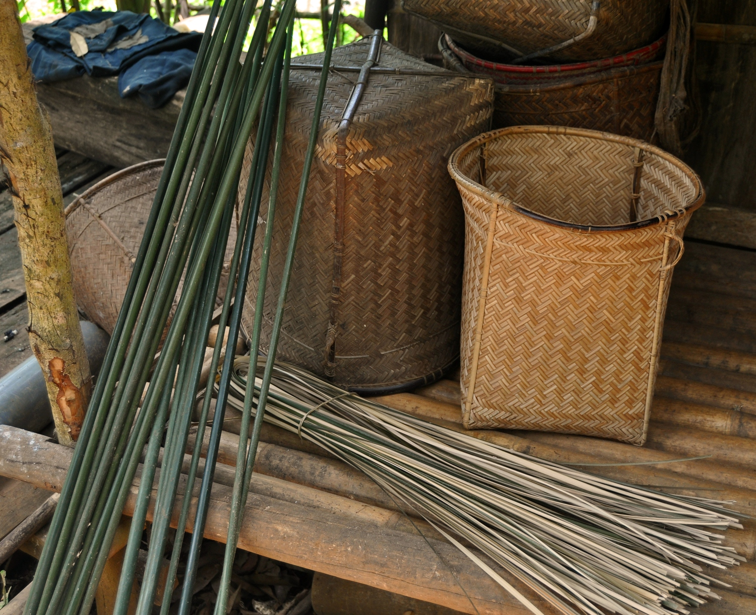 Bamban, Donax canniformis: cut stems, dried sheath ready to weave, and the traditional baskets made from. West Kalimantan, Indonesia.